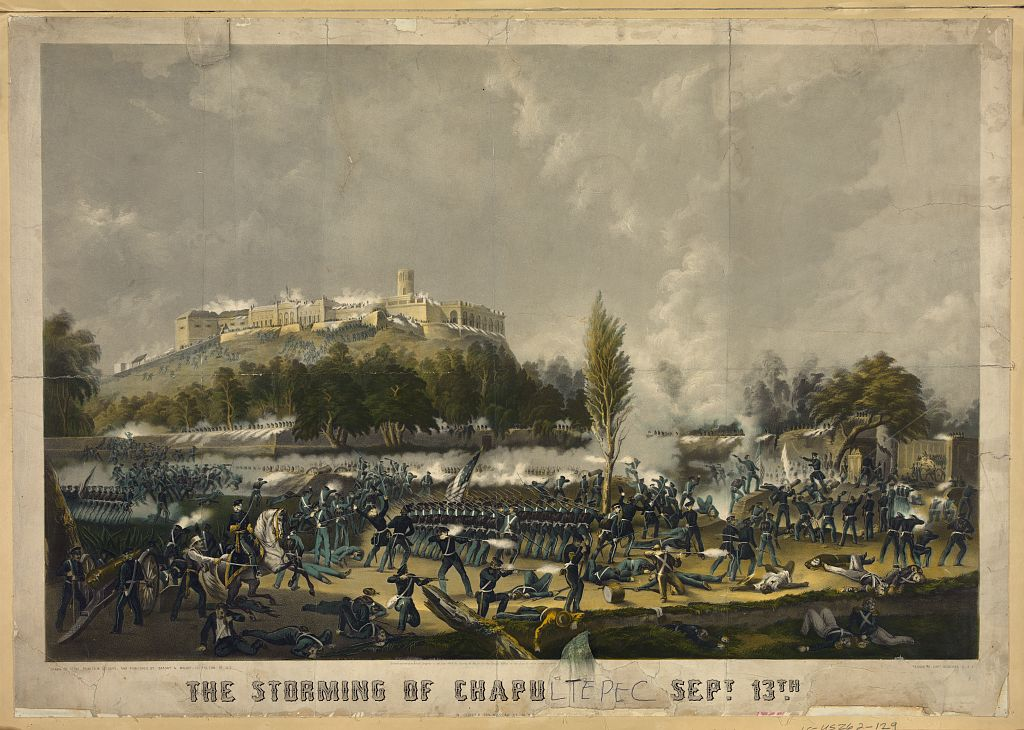 Battle of Chapultepec, Mexico City, Mexico, 1847.